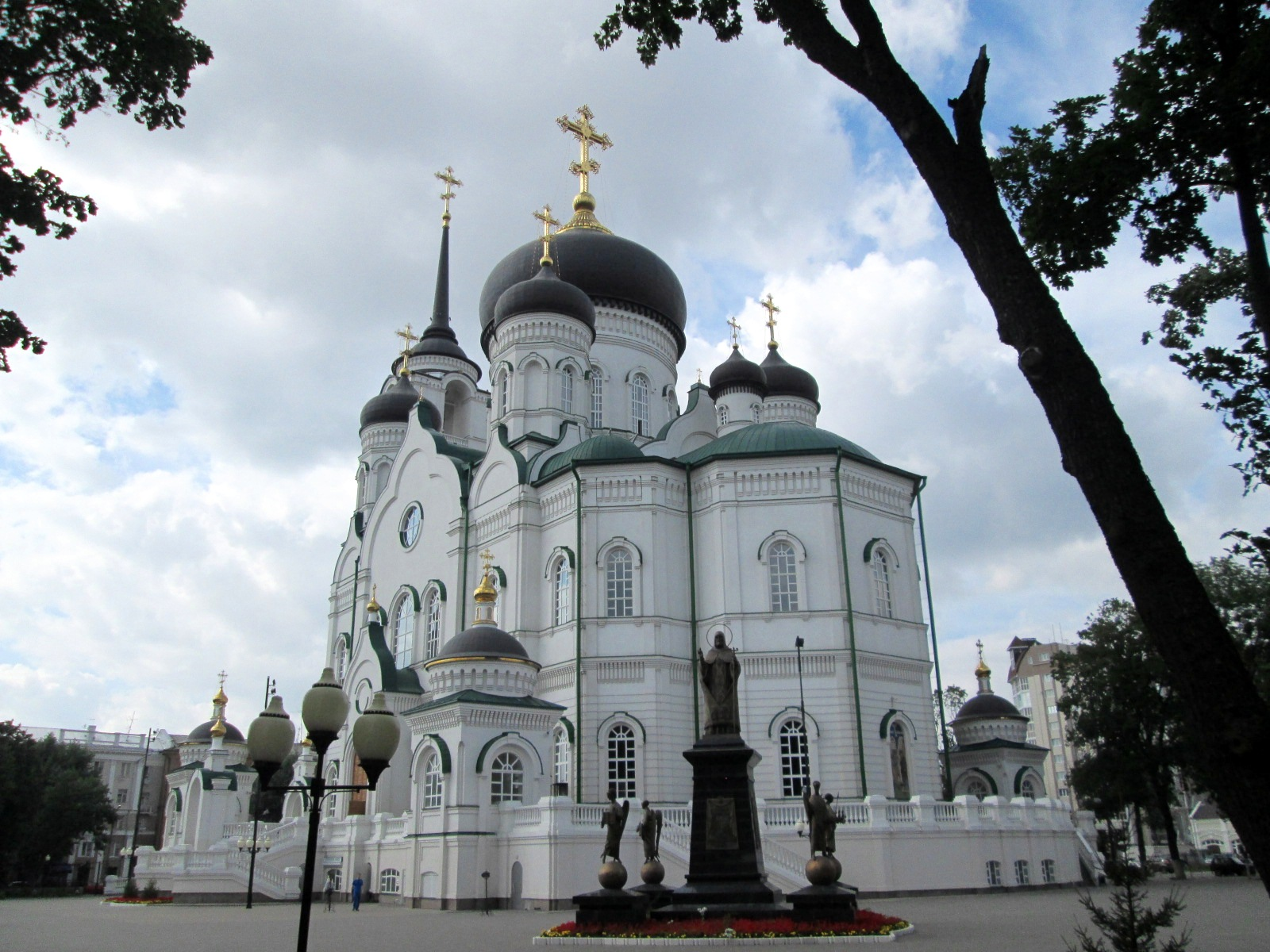 Annunciation Cathedral in Voronezh, Russia